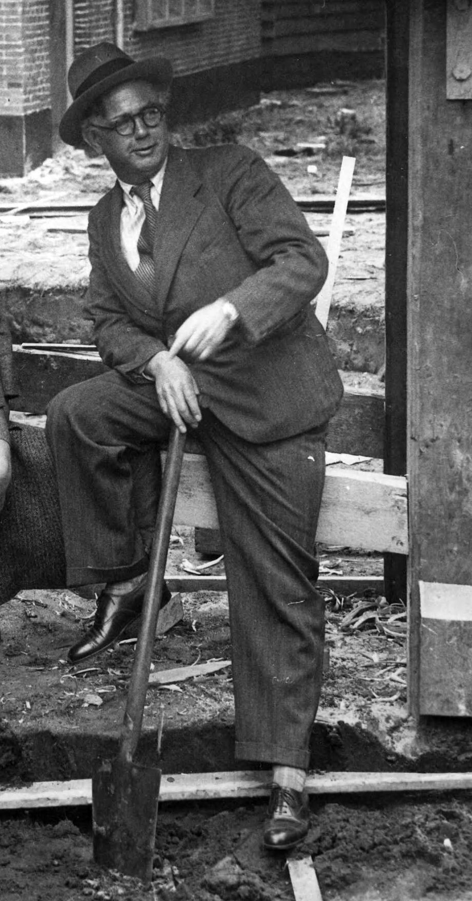 Dutch writer A.M. de Jong on the filmset of Merijntje Gijzen (The Hague, 1936)